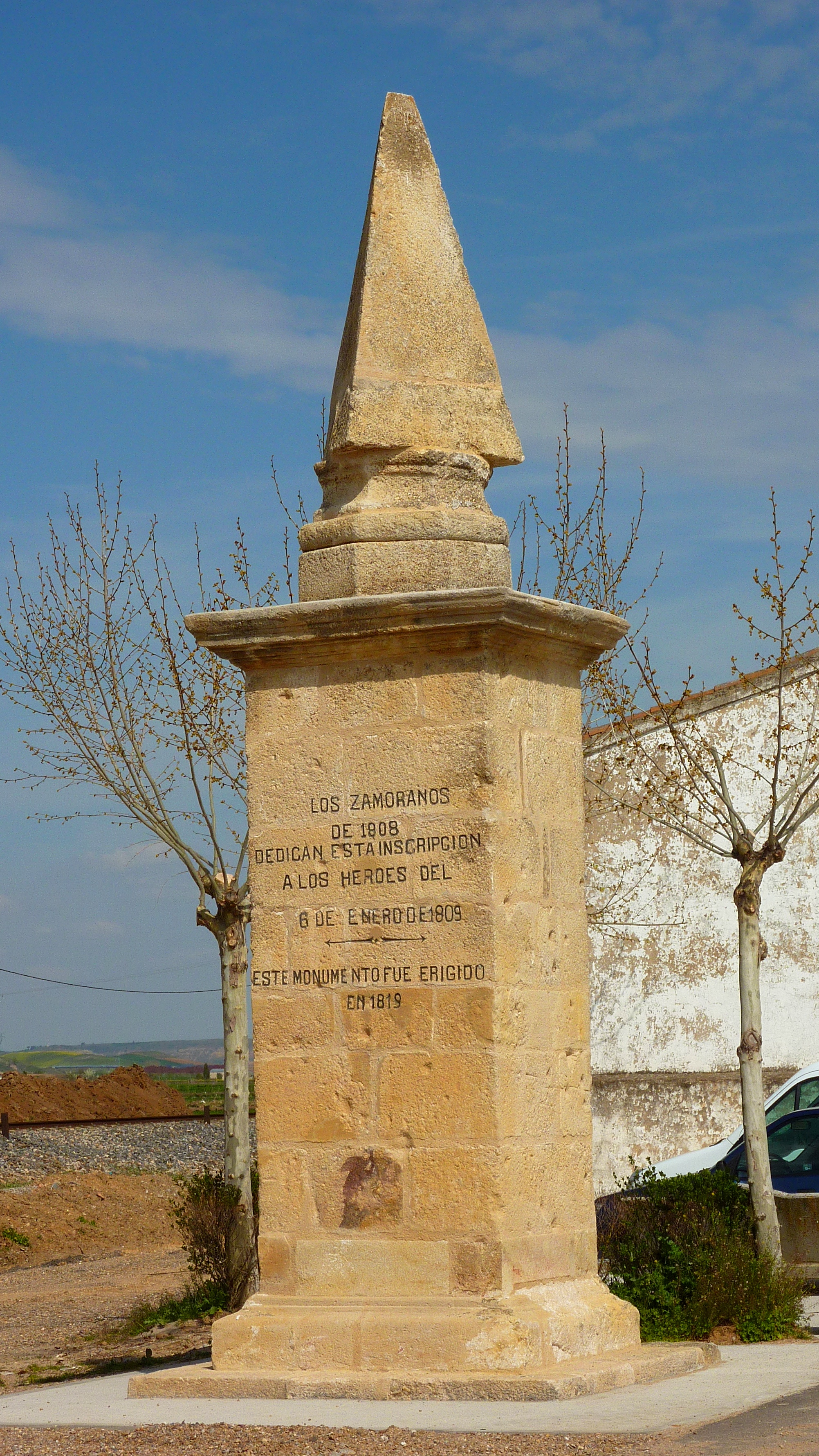 Obelisk of the Battle of Villagodio, Zamora, Spain.